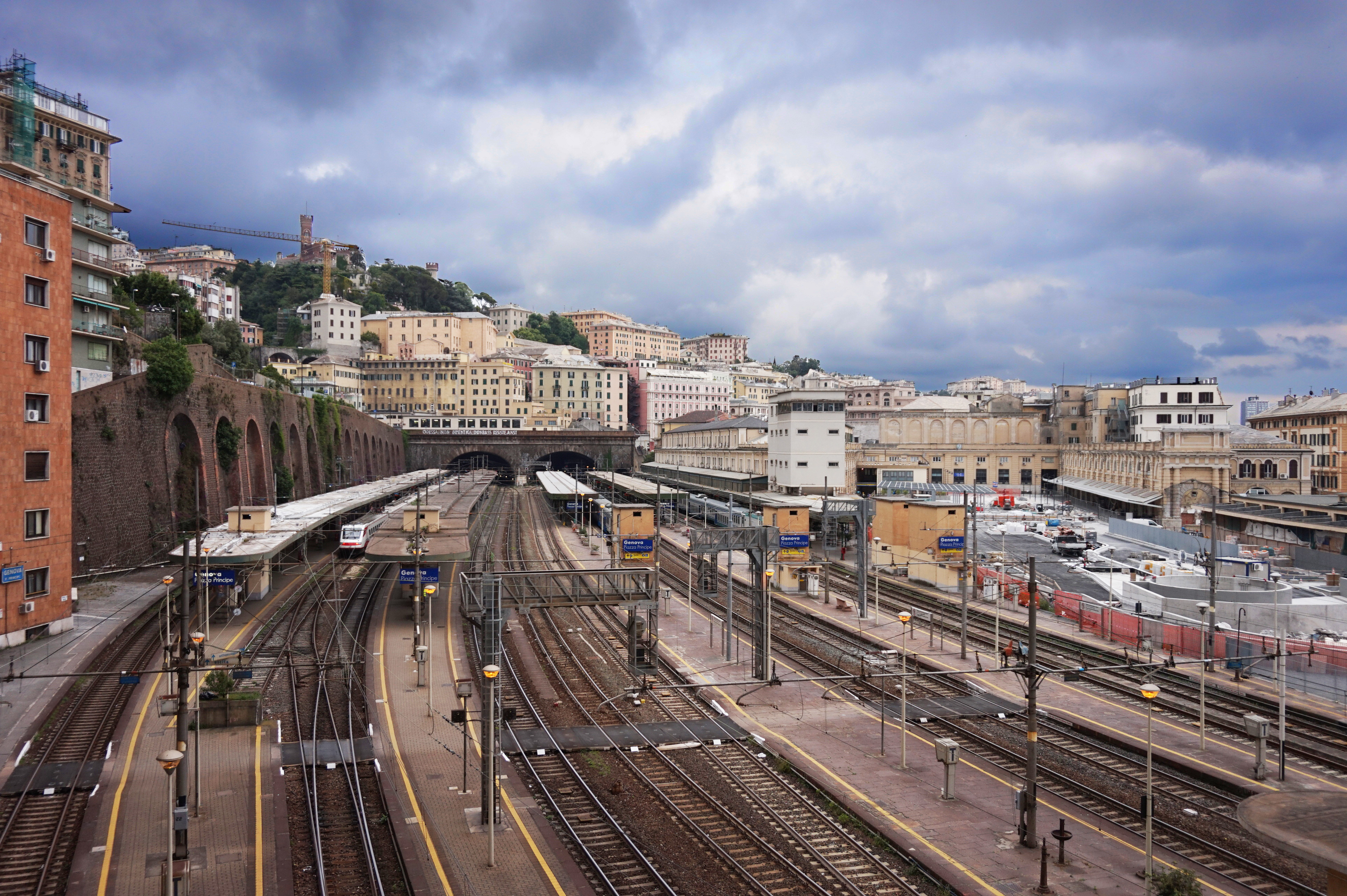 Genova Piazza Principe station in Genoa. This photograph was taken with a Sony Alpha a5000.